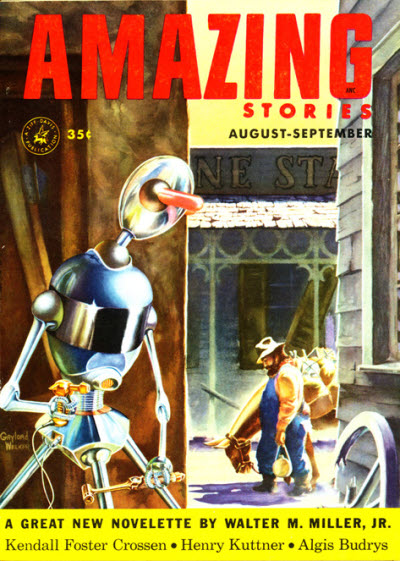 Cover of Amazing Stories, August-September 1953